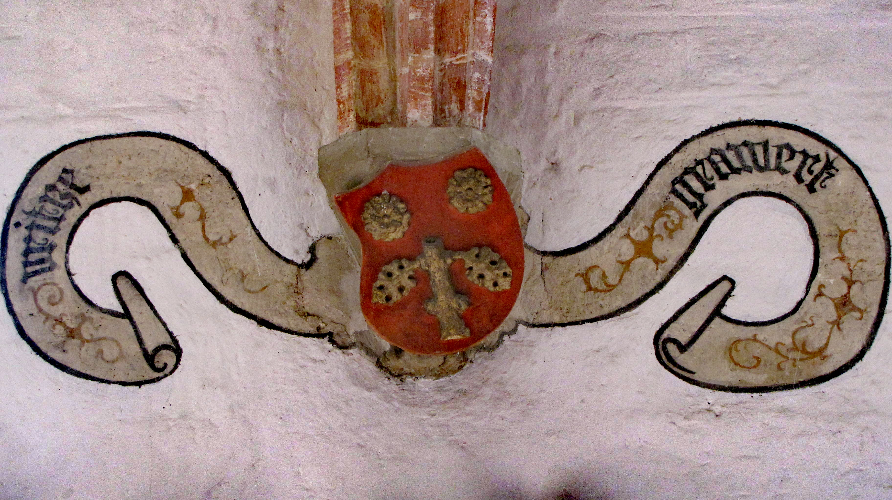 Console in remter of St-Annen-Museum with name and coat of arms of Fritz Grawert († 1538)